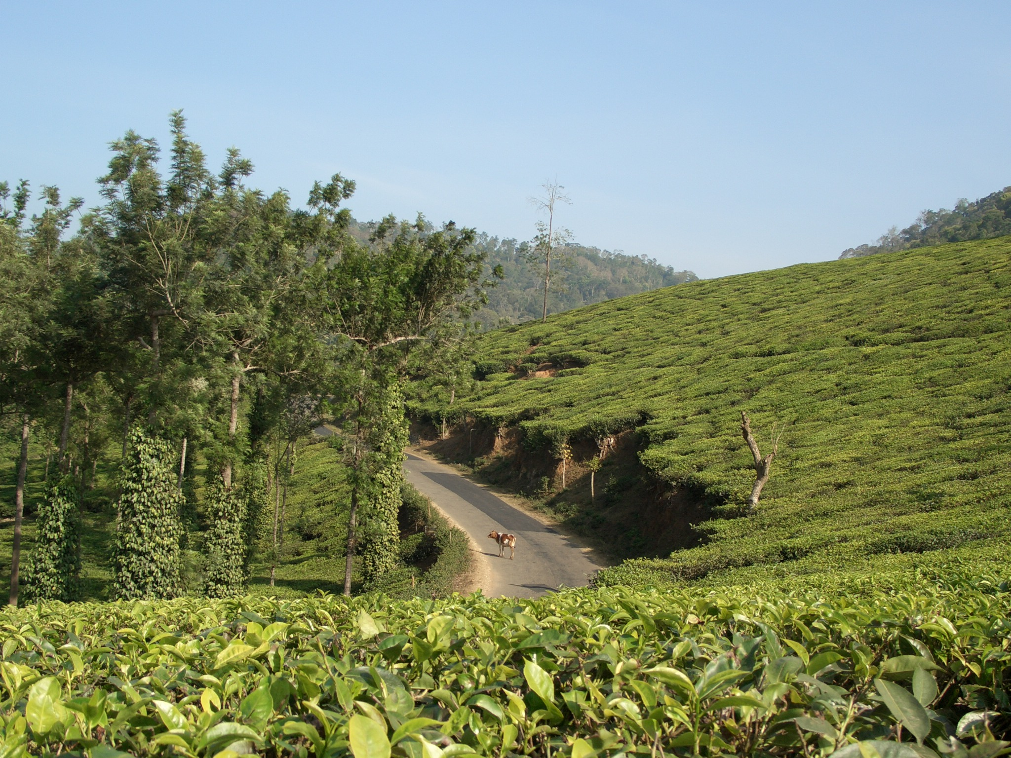 A tea plantation in India with a road visible.